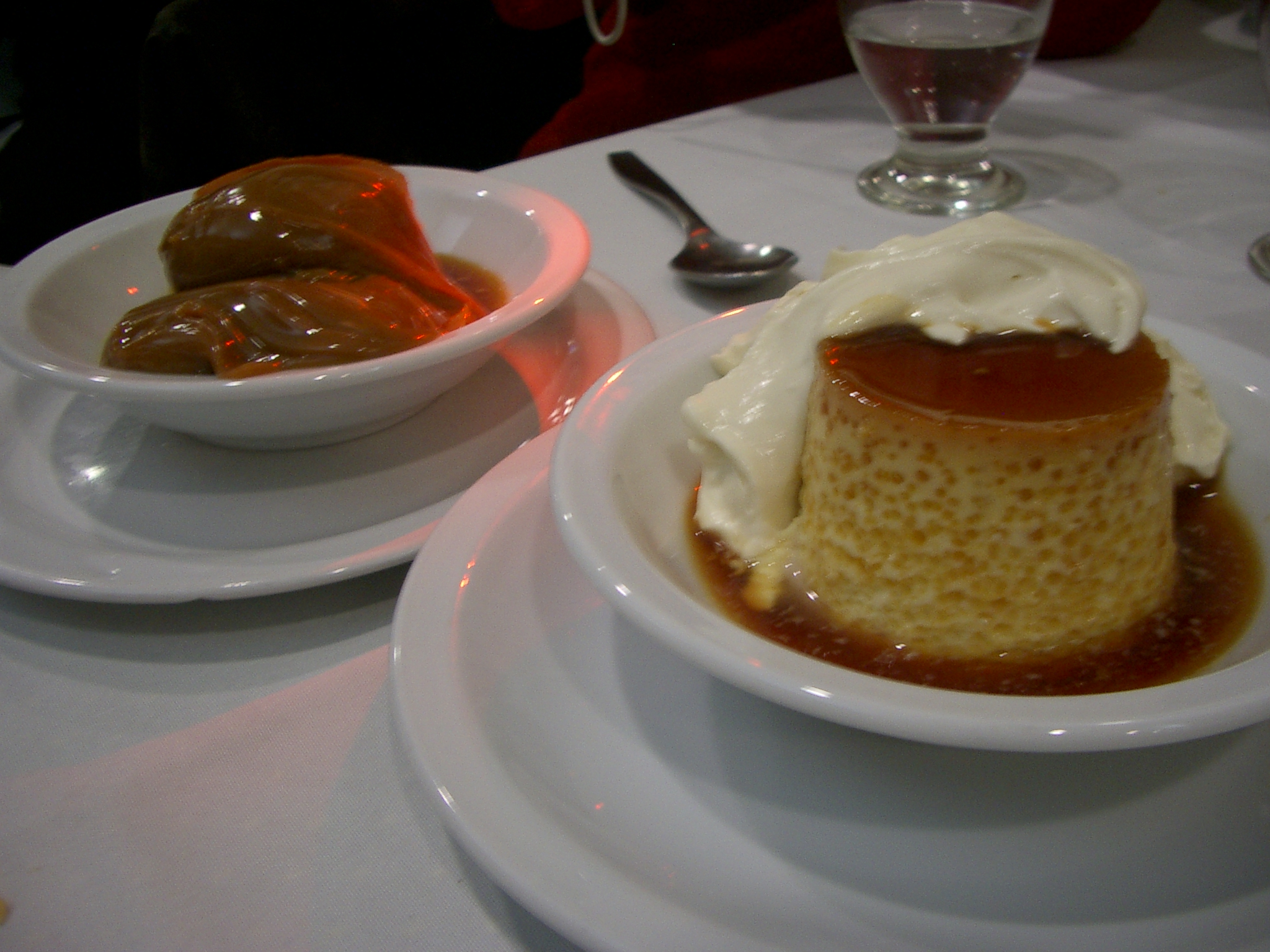 Flan with dulce de leche and creme.